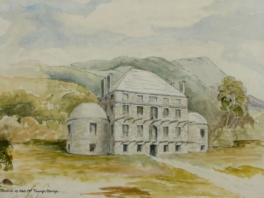 Sketch of Old McTavish House; Watercolour; Anonyme - Anonymous; 1850, 19th century; 22.8 x 30.4 cm; Gift of Mr. Victor Buchanan; M21263; McCord Museum.